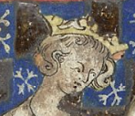 Stephen of England